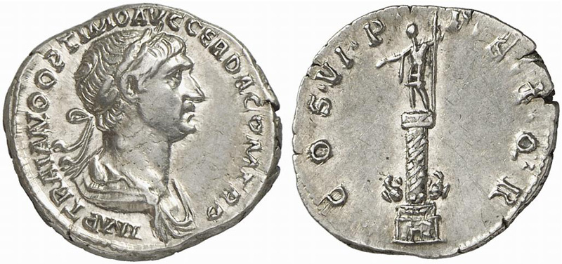 Traianus. AD 98-117. Denarius (Silver, 3.34 g 6), Rome, 114. IMP TRAIANO AVG GER DAC P M TR P COS VI P P Laureate and draped bust of Trajan to right. S P Q R OPTIMO PRINCIPI View of the Column of Trajan: showing his statue on top, the two eagles at its base, and the entrance below. Bauten 50. BMC 452. BN 746. Cohen 558. Hill 618. RIC 292. Sharp and attractive with lustrous surfaces. Extremely fine. Trajan’s column is one of the best known and most recognizable of all the monuments of Rome. Built to commemorate Trajan’s Dacian Wars, it was finished in 113 and commemorated by coins struck in 113/114. The sculptural frieze, illustrating the campaigns of 101-102 and 105-106, contain nearly 2500 figures (the emperor himself appears 59 times among his troops). The column was originally set between the Greek and Latin Libraries and the Basilica Ulpia at the northern end of Trajan’s Forum - viewers could have seen the reliefs from the balconies of those buildings. The statue of Trajan that was originally on top of the column disappeared at some point during medieval times: in 1587 Pope Sixtus V topped the column with a bronze statue of St. Peter. The model was made by the sculptors Leonardo Sormani (fl. c. 1551-c. 1590)and Tommaso della Porta (c. 1550-1606) and the final mold that was cast in bronze was by Bastiano Torrigiani (d. 1596).